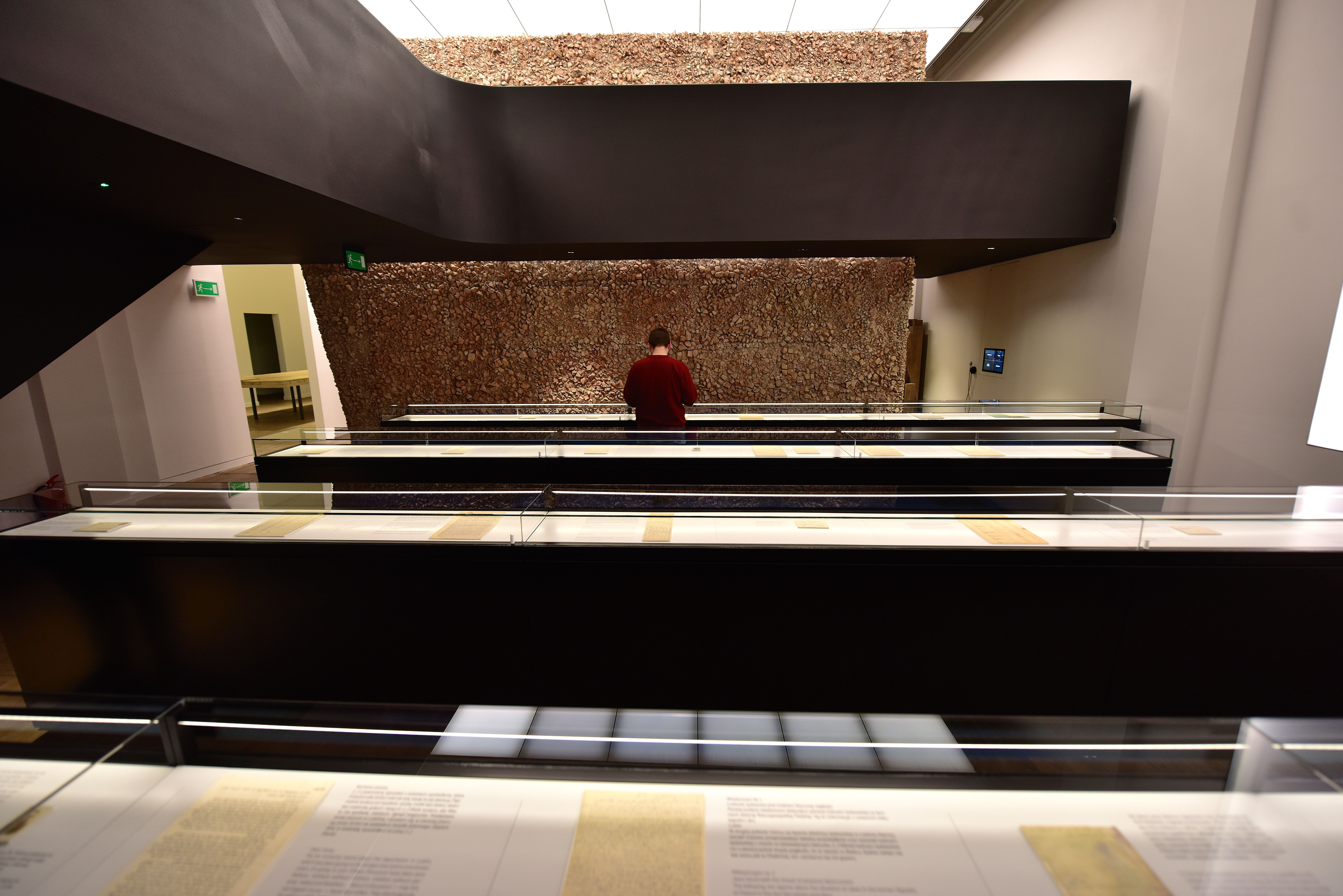 Part of the permanent exhibition What we were unable to shout out to the world at the Emanuel Ringelblum Jewish Historical Institute in Warsaw